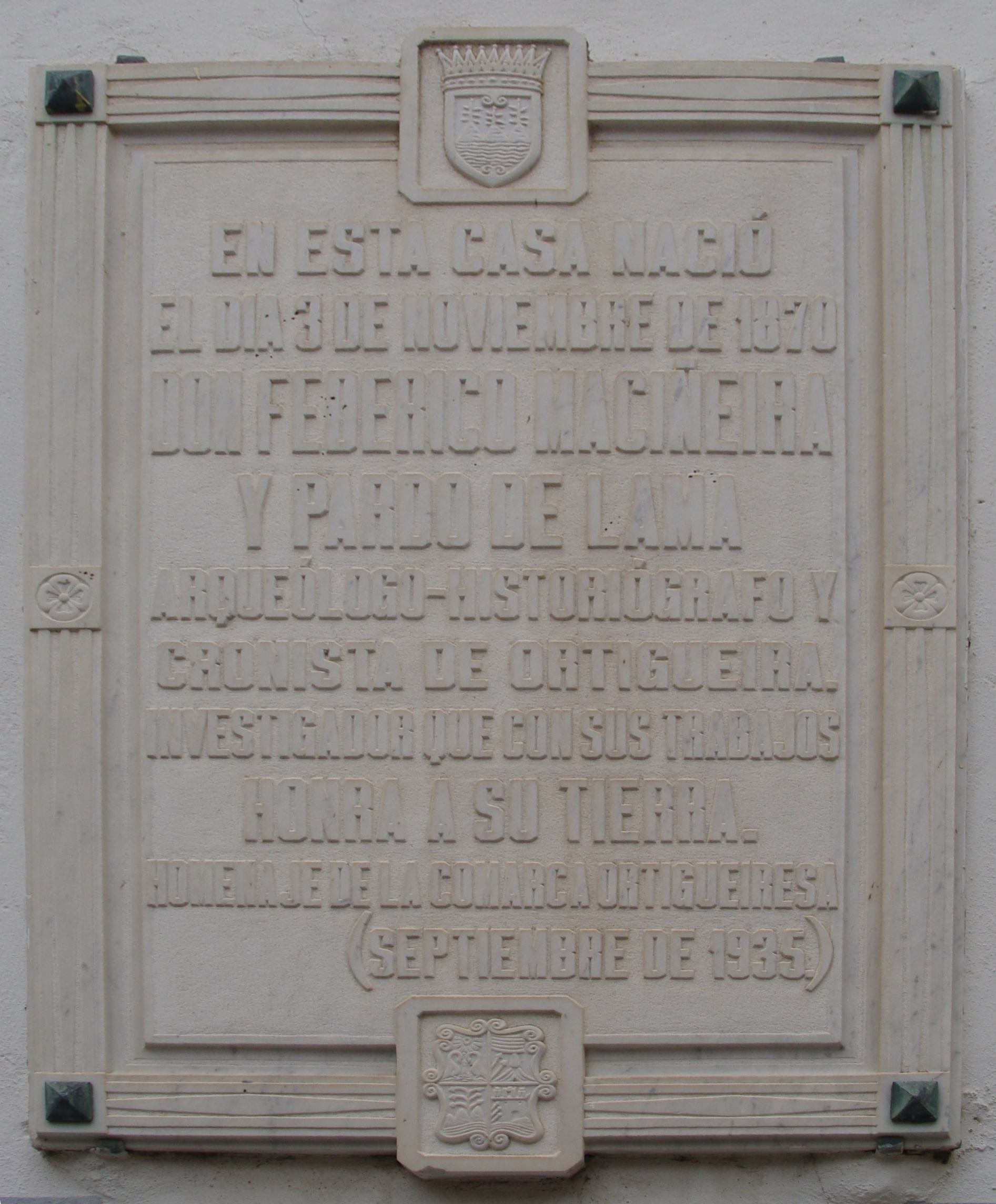 Plaque of Don Federico Maciñeira y Pardo de Lama in O Barqueiro (Mañón), Corunna, Galicia, Spain.